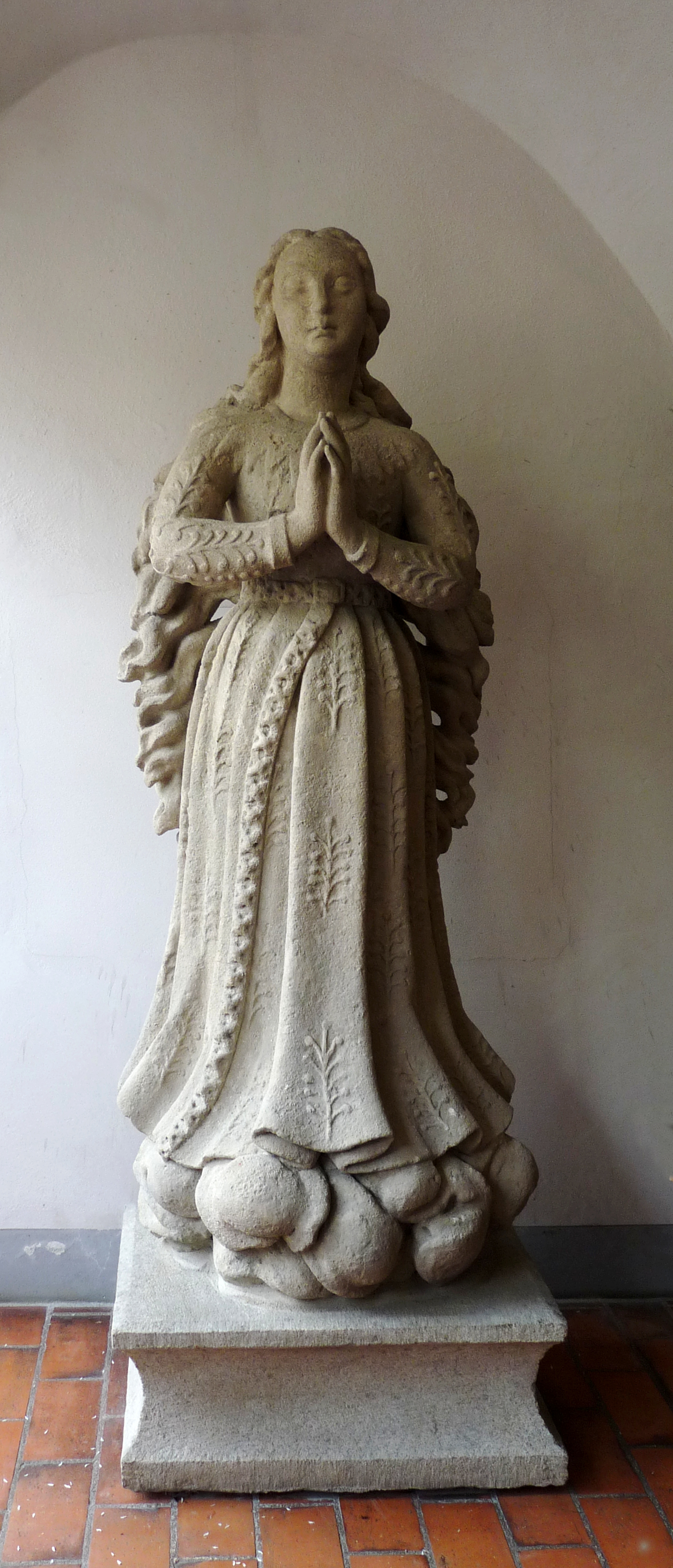 Statue of the Virgin Mary in the city of České Budějovice, Czech Republic.